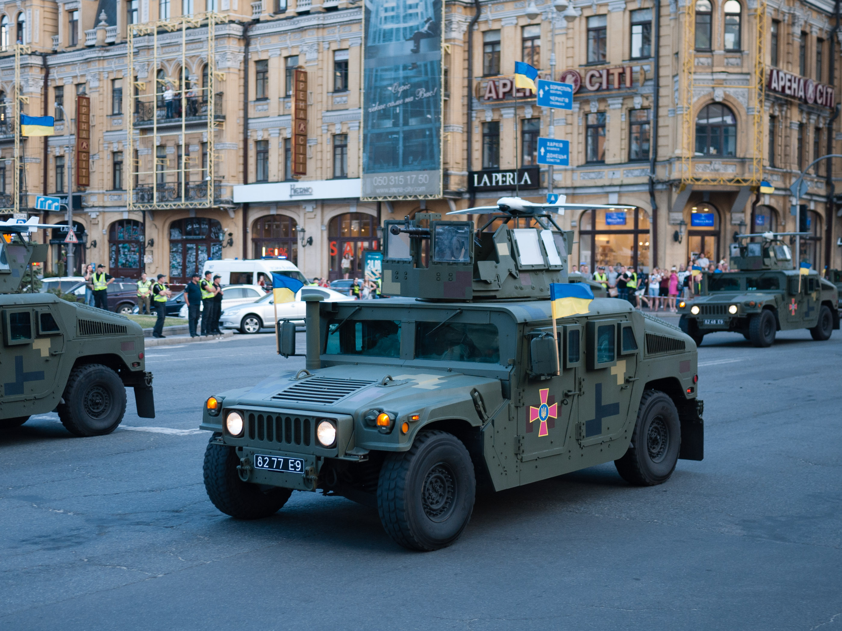 Humvee and Furia UAV, rehearsal for the Independence Day military parade in Kyiv, 2018